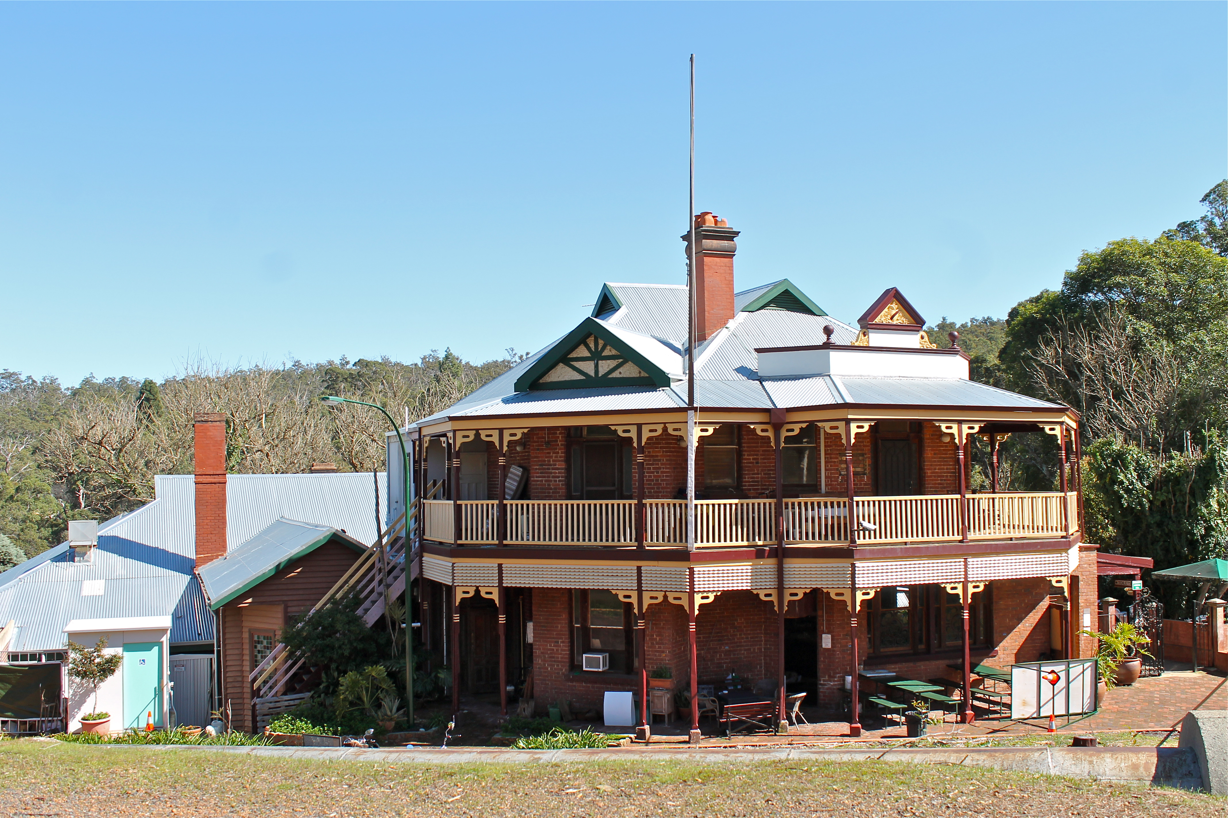 Mundaring Weir Hotel, Mundaring Weir, Western Australia viewed from level of old railway line (now roadway) lying east of the hotel and north of the weir itself